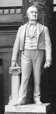 Thomas Hart Benton Given by Missouri to the National Statuary Hall Collection.